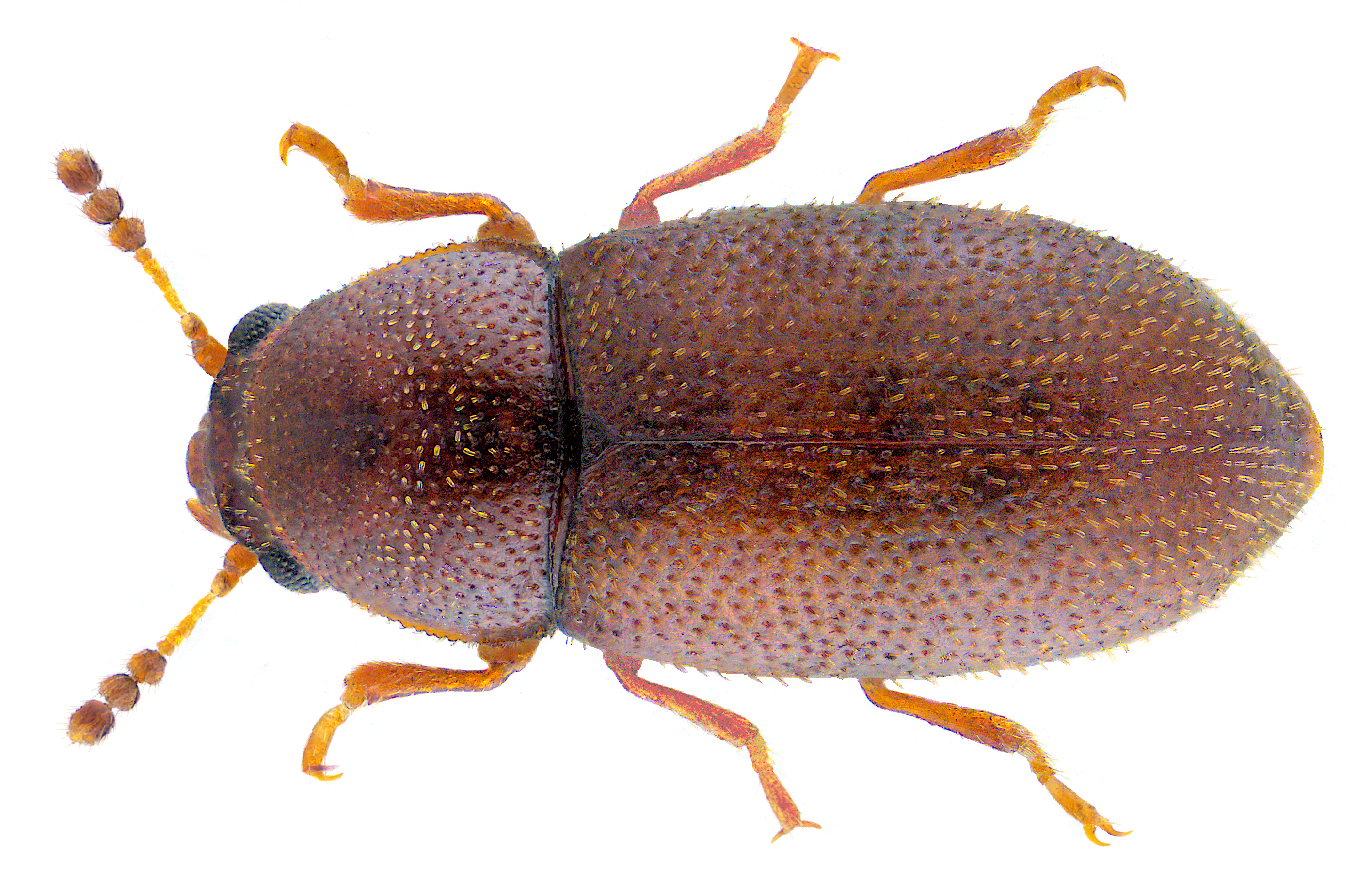 Family: Ciidae (Cisidae) Size: 1.7 mm (1.4 to 2.0 mm) Distribution: Europe Ecology: In hard tree sponges Location: Germany, Bavaria, Upper Franconia, Kulmbach, Blaicher Berg leg.det. U.Schmidt, 28.VII.1975 Photo: U.Schmidt, 2017